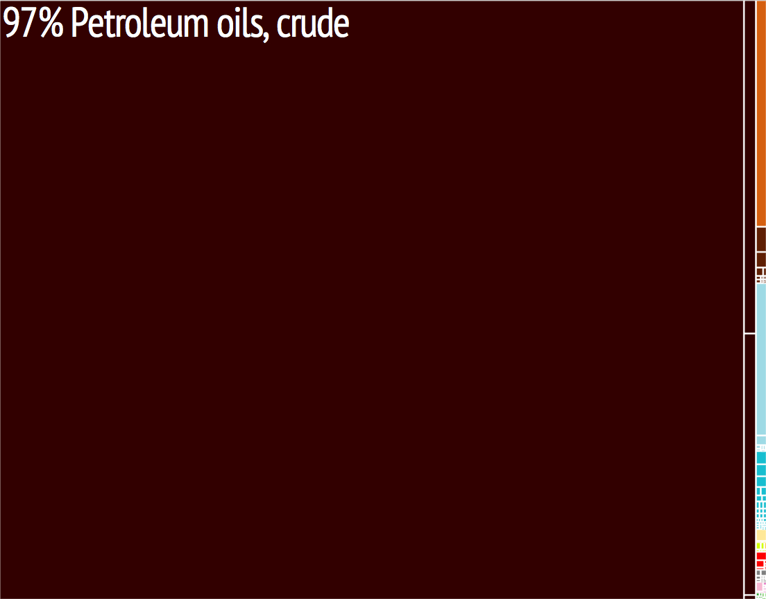 Angola Export Treemap from MIT Harvard Economic Observatory